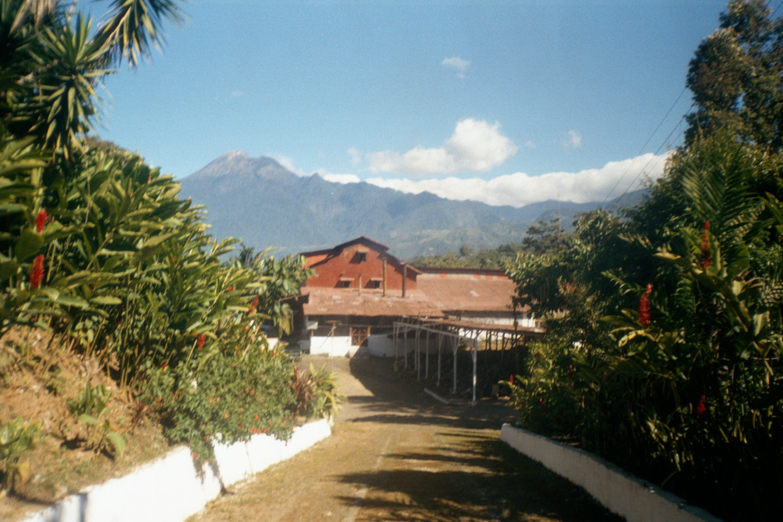 The coffee processing plant on the El Platanillo coffee plantation near San Rafael Pie de la Cuesta in San Marcos department, Guatemala. The Tajumulco volcano is in the background.